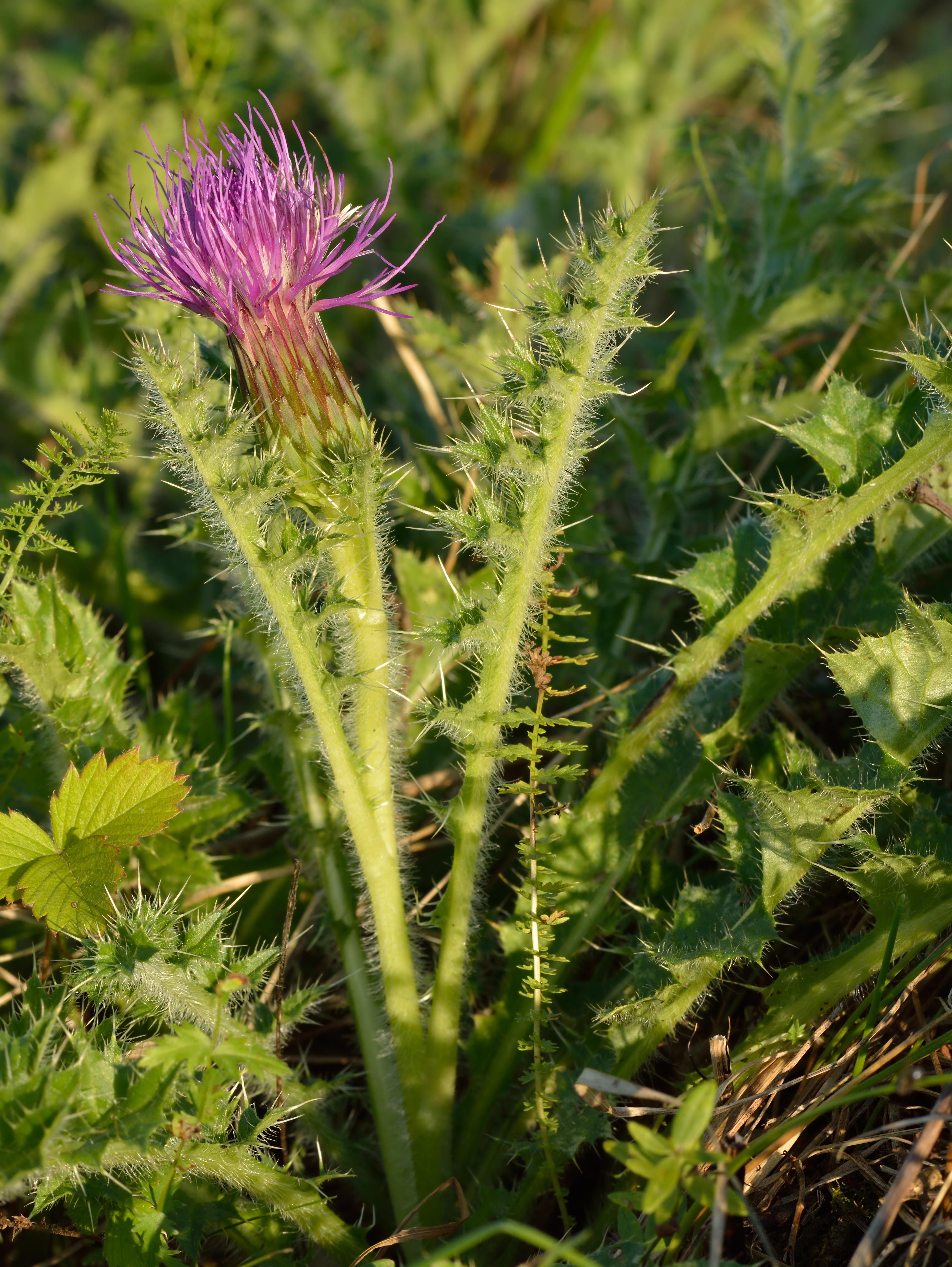 Cirsium acaule - dwarf thistle in Keila, Northwestern Estonia.